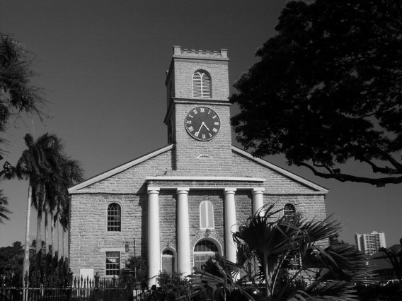 Kawaiahaʻo Church - in Hawaii.